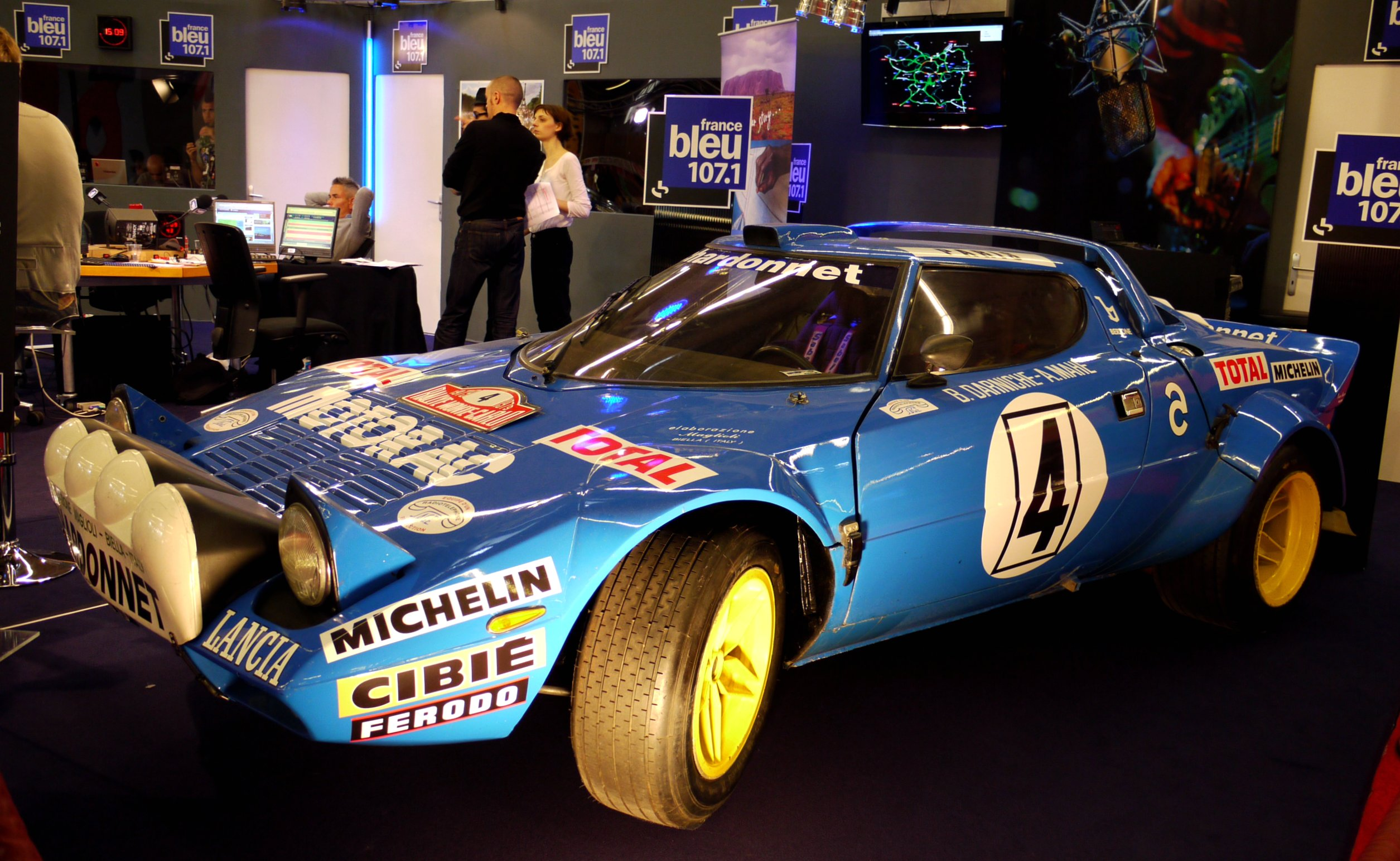 Lancia Stratos HF Monte Carlo 1979 - Driver Bernard Darniche, co-driver Alain Mahé.